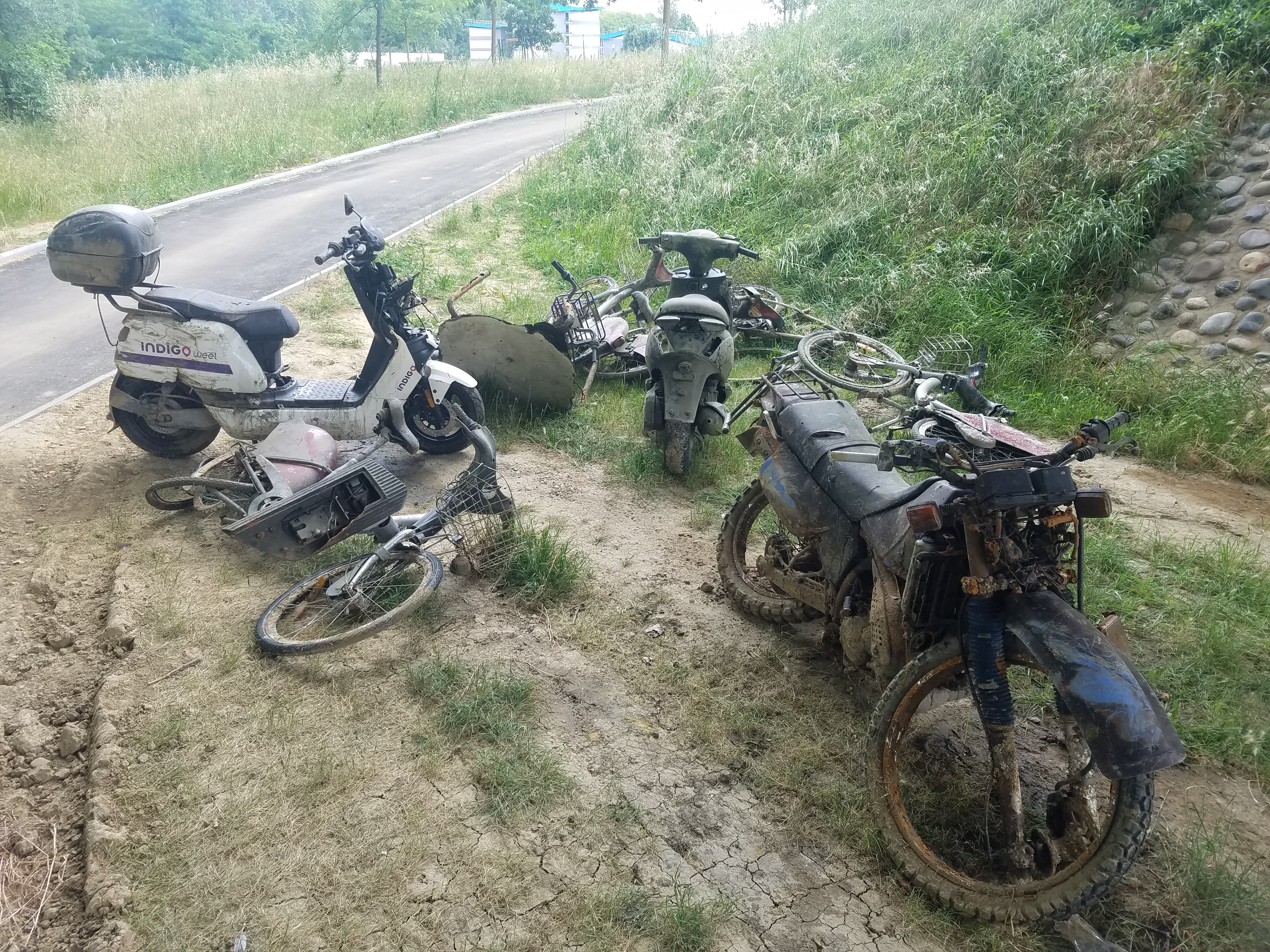 Bikes and motorbikes fished with a magnet (and/or a hook) exposed along the Canal du Midi (Toulouse, France).